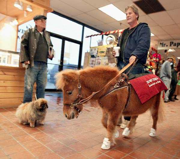 12/14/2002 -- Ellsworth, Maine -- Dan Shaw and his Guide Horse Cuddles make their way through a shopping mall. Photo courtesy Guide Horse Foundation